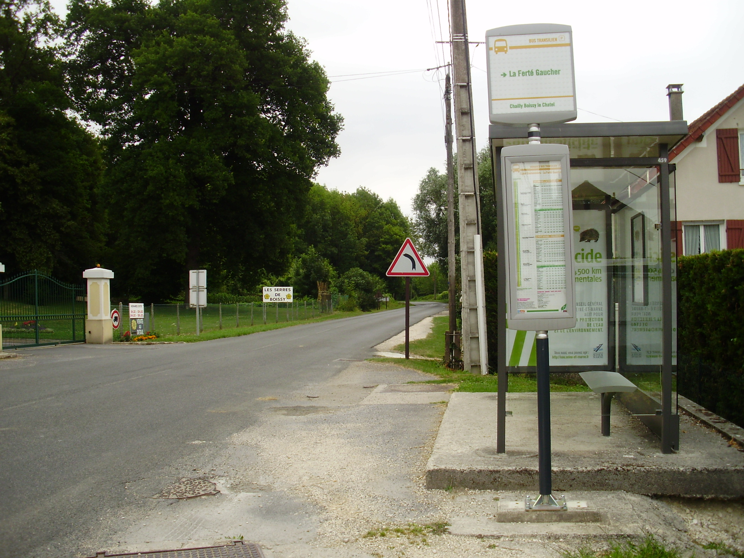 Transilien bus stop on the D66 road in place named Le Moulin, in Boissy-le-Châtel, 200 m north of the disused station of Chailly - Boissy-le-Châtel